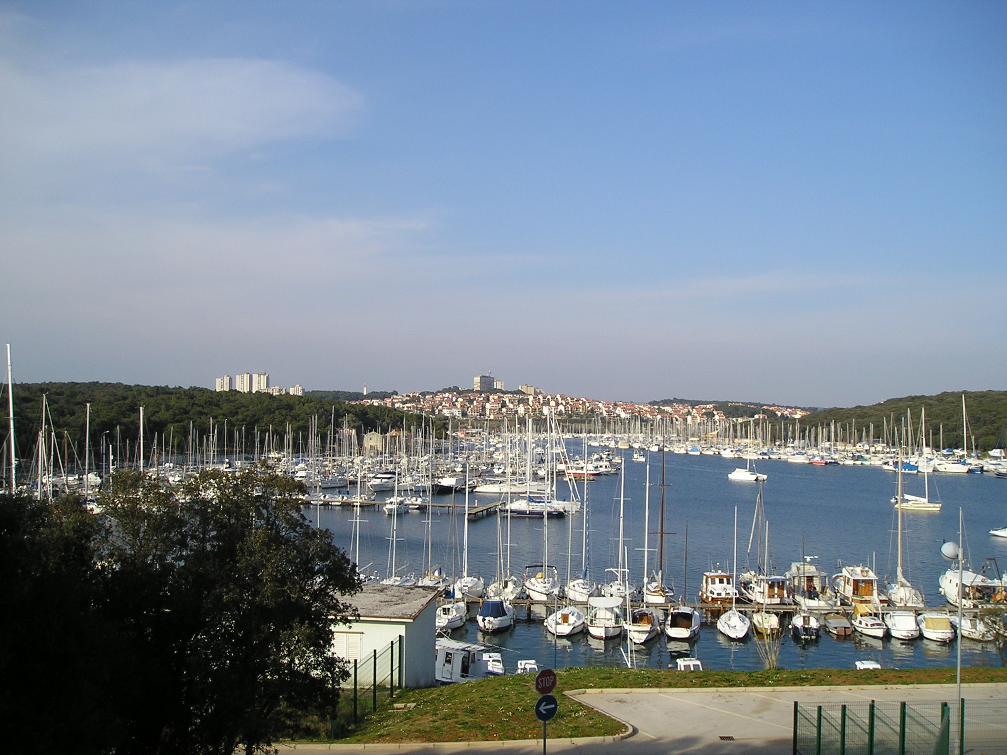 The Veruda commercial marine port/harbor in Pula, Croatia. This is my own picture taken a few days ago.